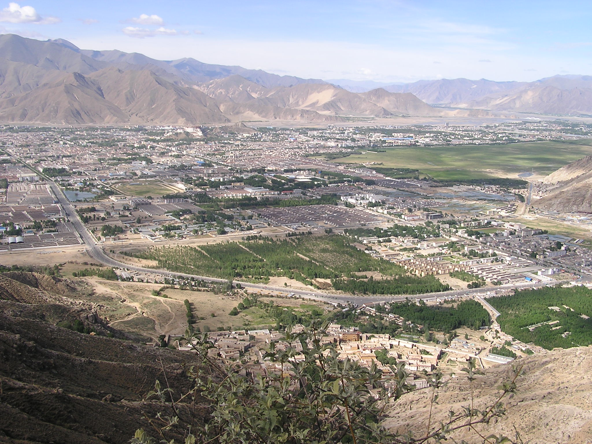 View to Lhasa from Retreat house near Sera